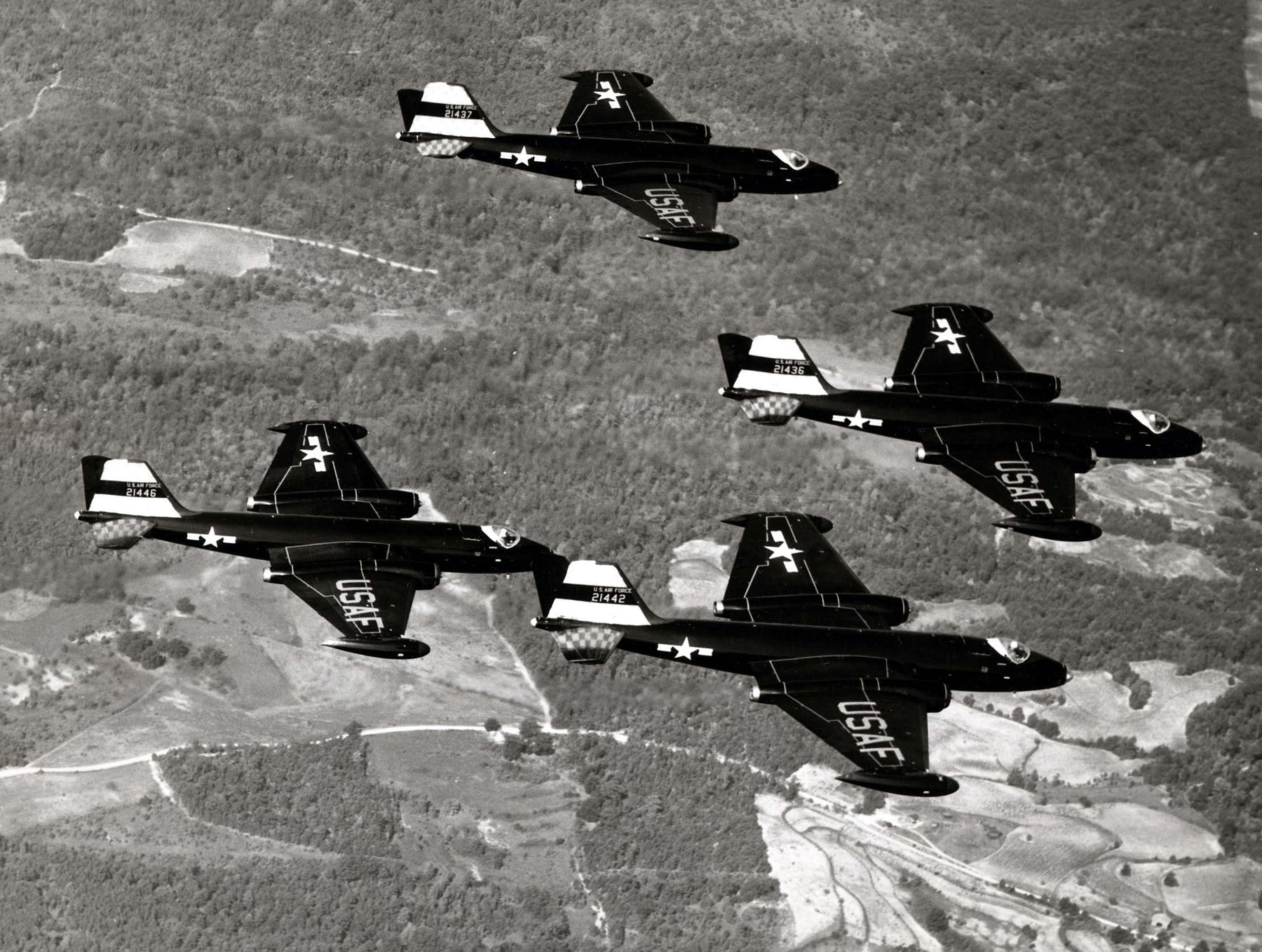 Martin RB-57A Canberra formation